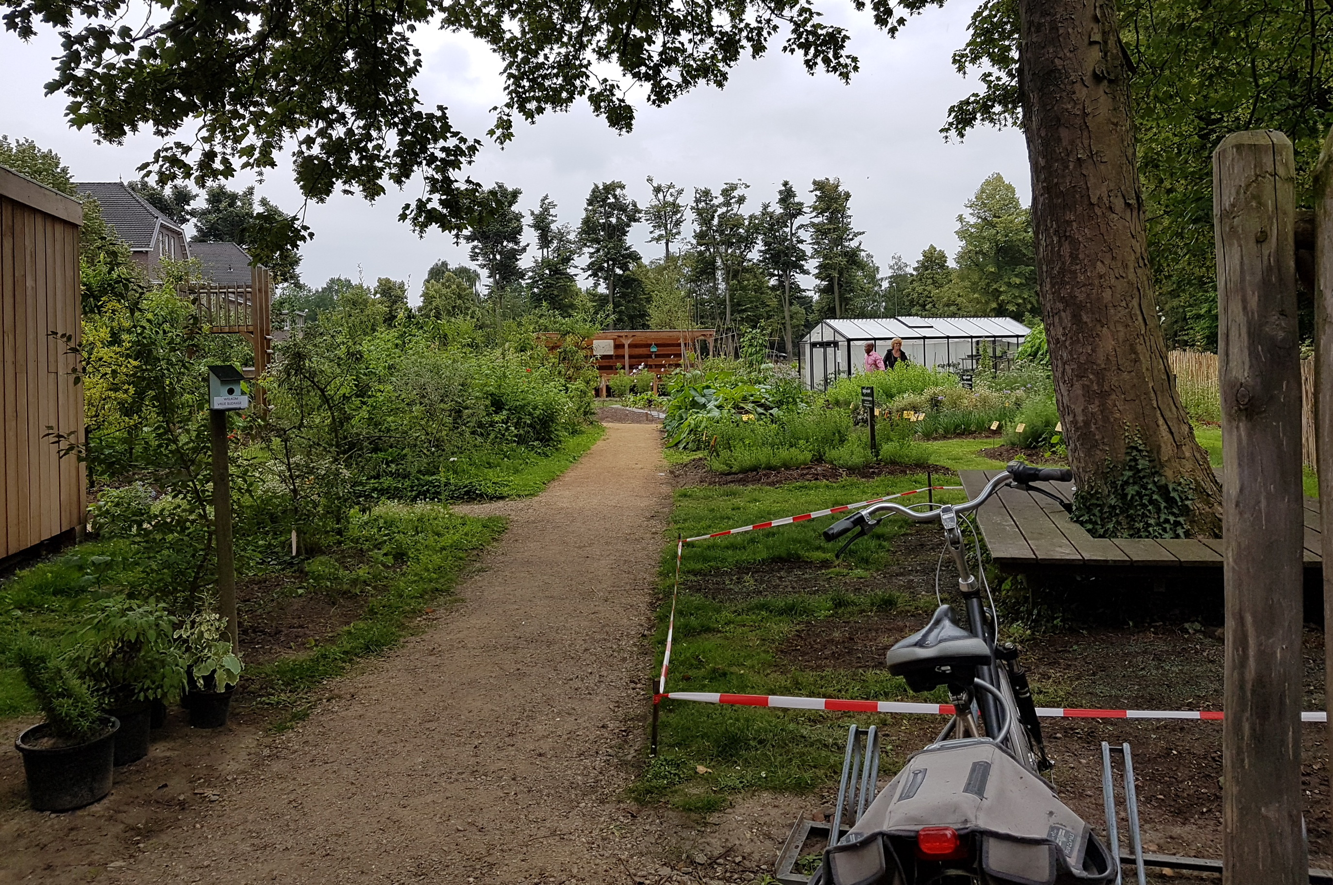 A communal biological kitchen garden on the grounds of the former Tapijnkazerne barracks in Maastricht, Netherlands.